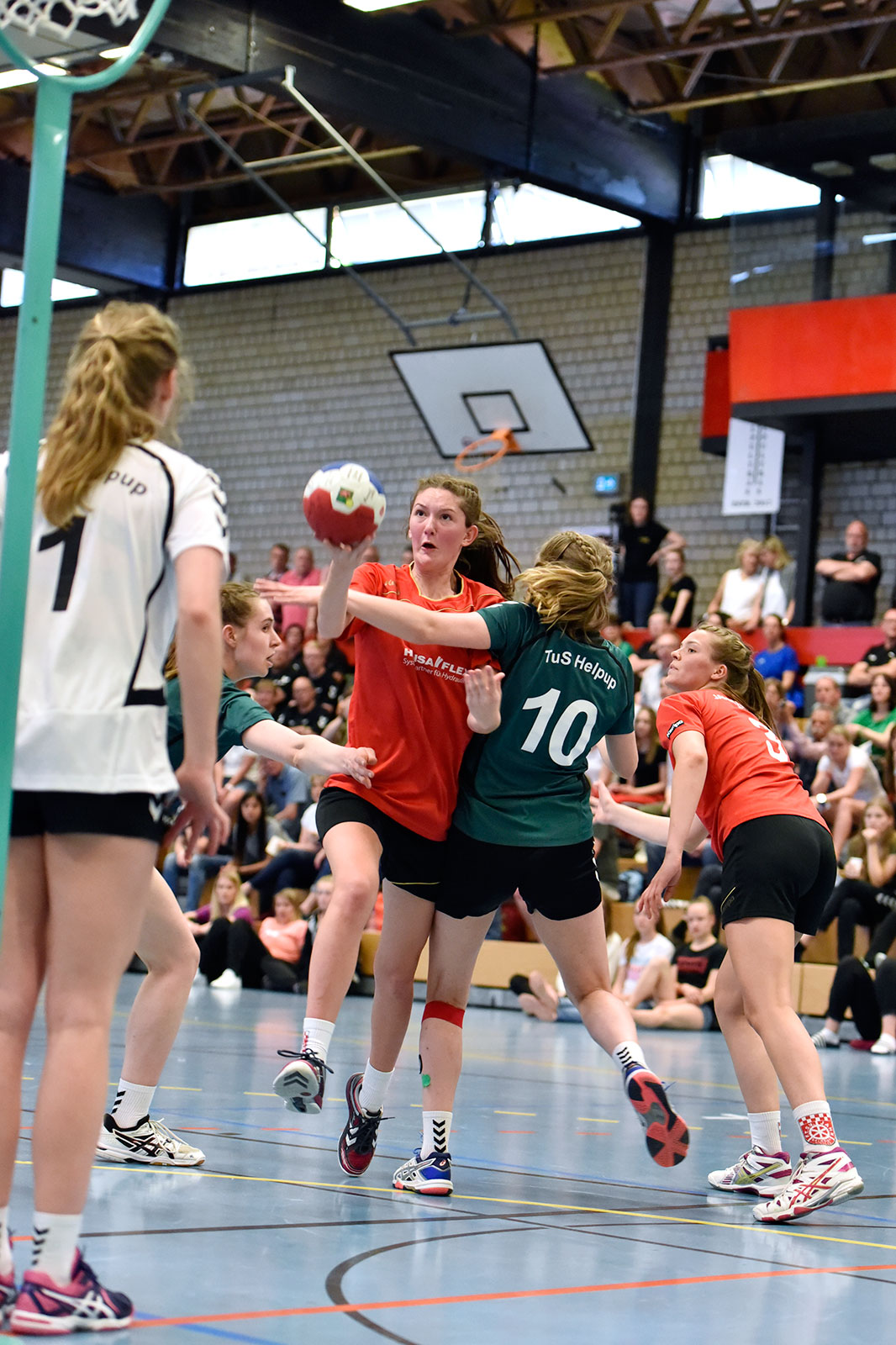 FTSV Jahn Brinkum’s Marlene Kamp performing a layup in the age group 16-19 championship final against TuS Helpup at the 50th German Indoor Korbball Championships in Oerlinghausen.